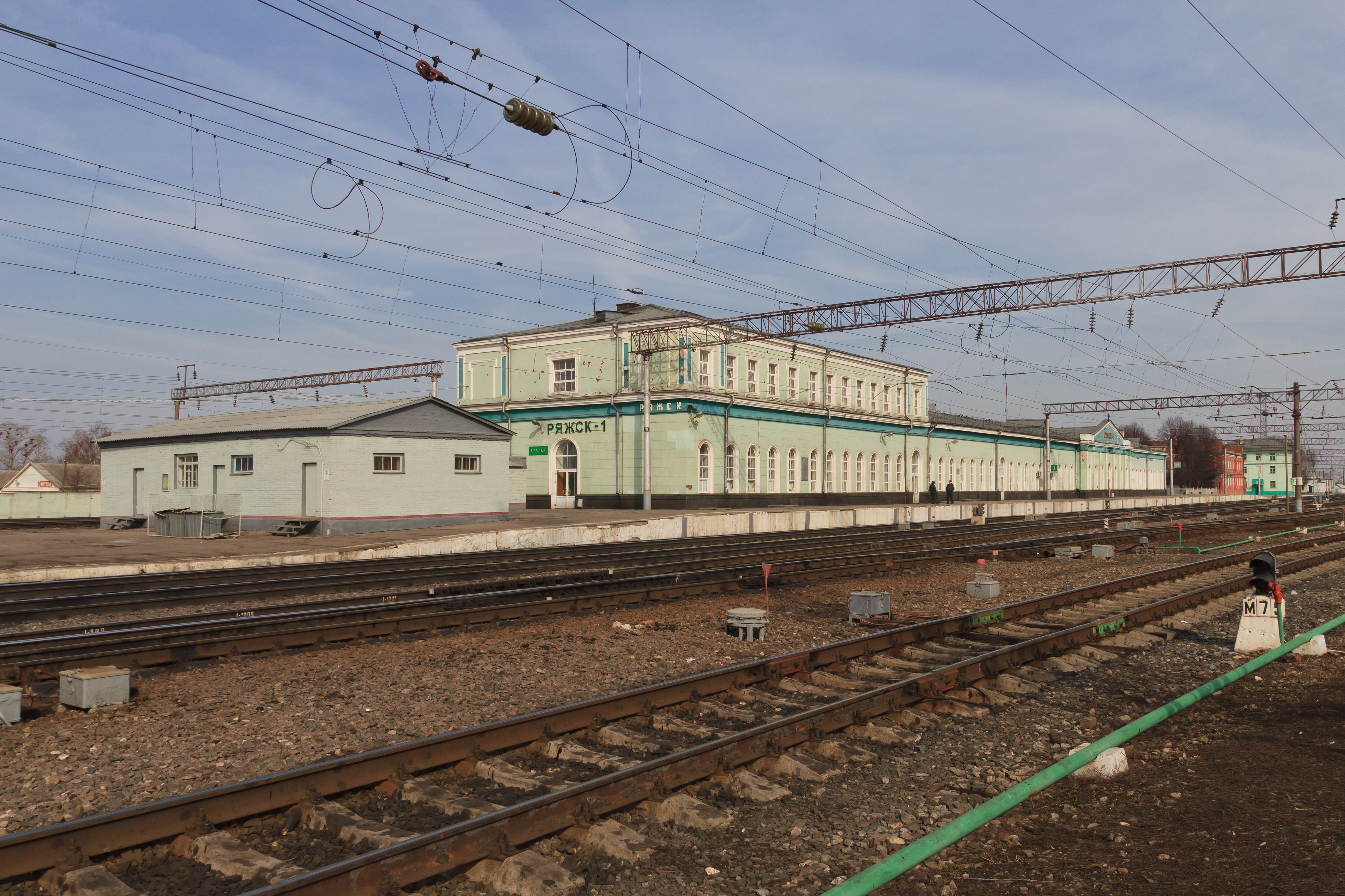 Ryazhsk-1 railway station in Ryazhsk, Ryazan Oblast, Russia.